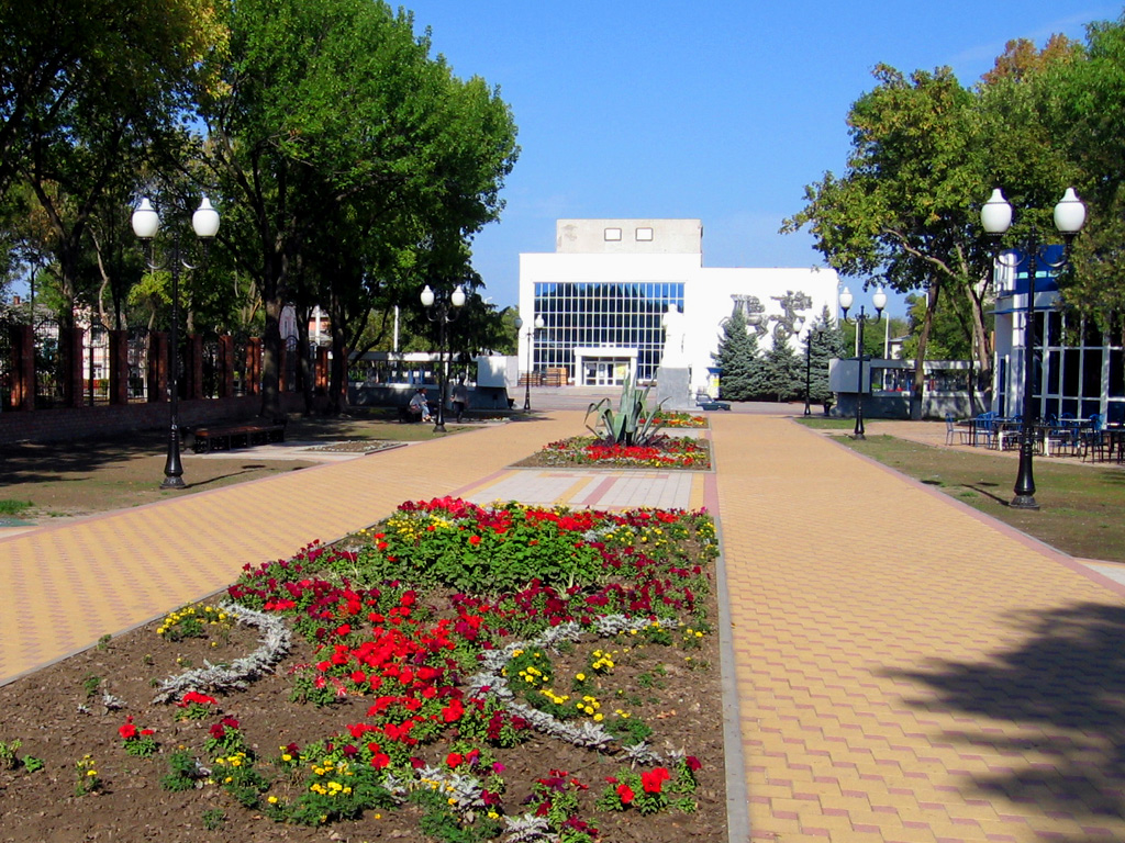 A view of Eisk (Yeisk) City House of Culture